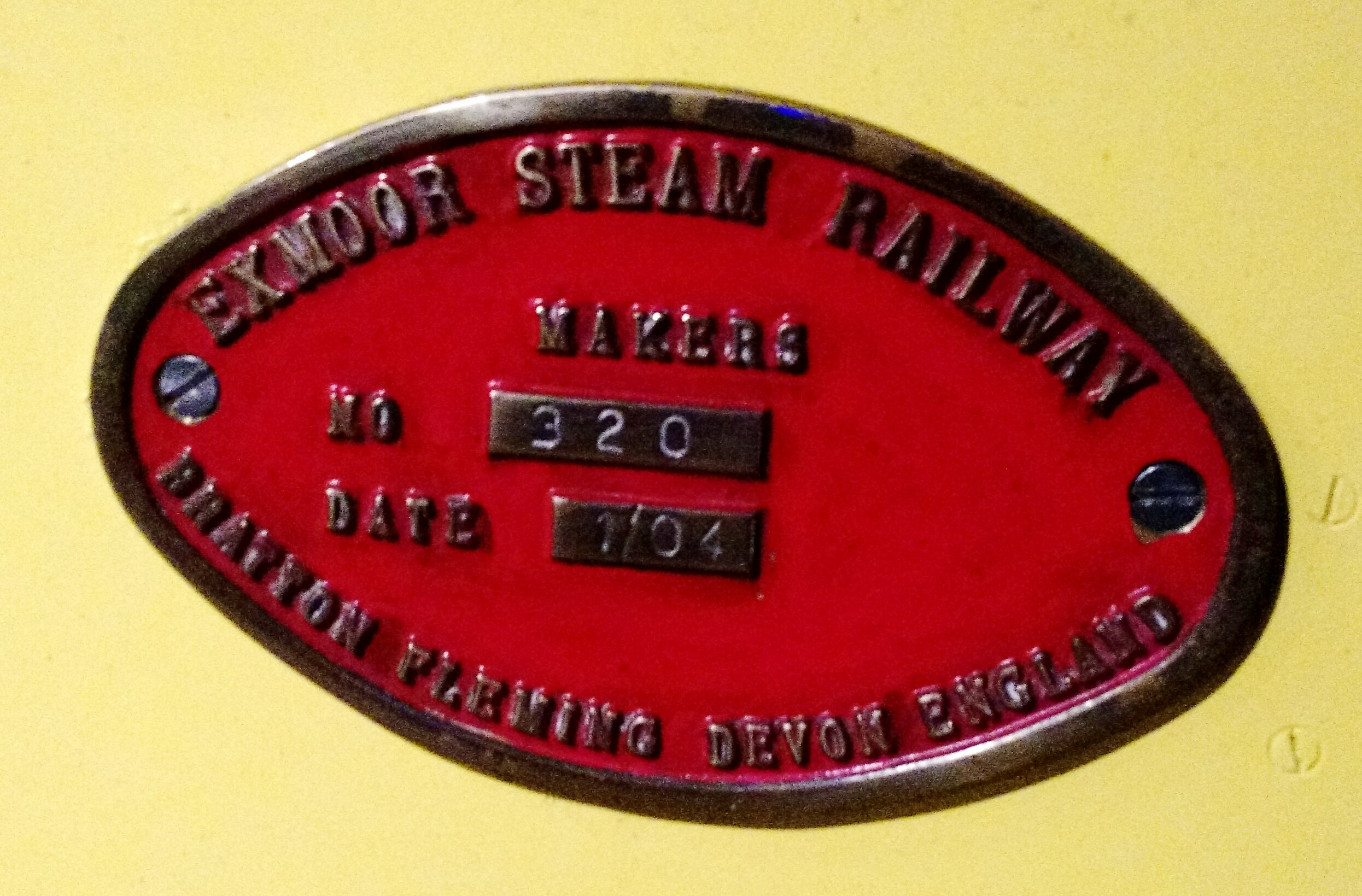 Builder's plate works #320 narrow Gauge steam locomotive "Dame Ann" Exmoor Steam Railway dated January 2004